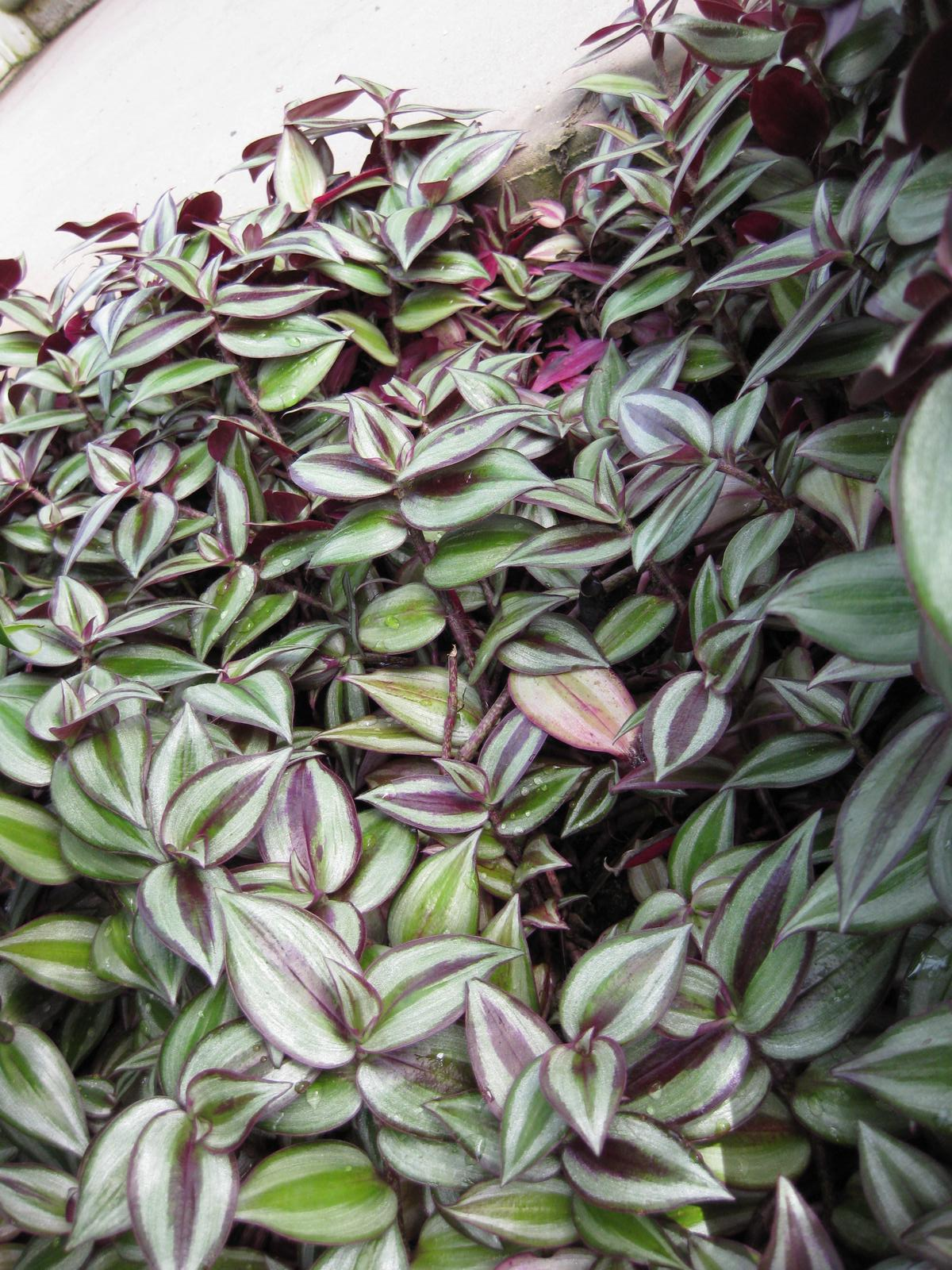 Tradescantia zebrina. Photographed at Huntington Gardens (Los Angeles) in March